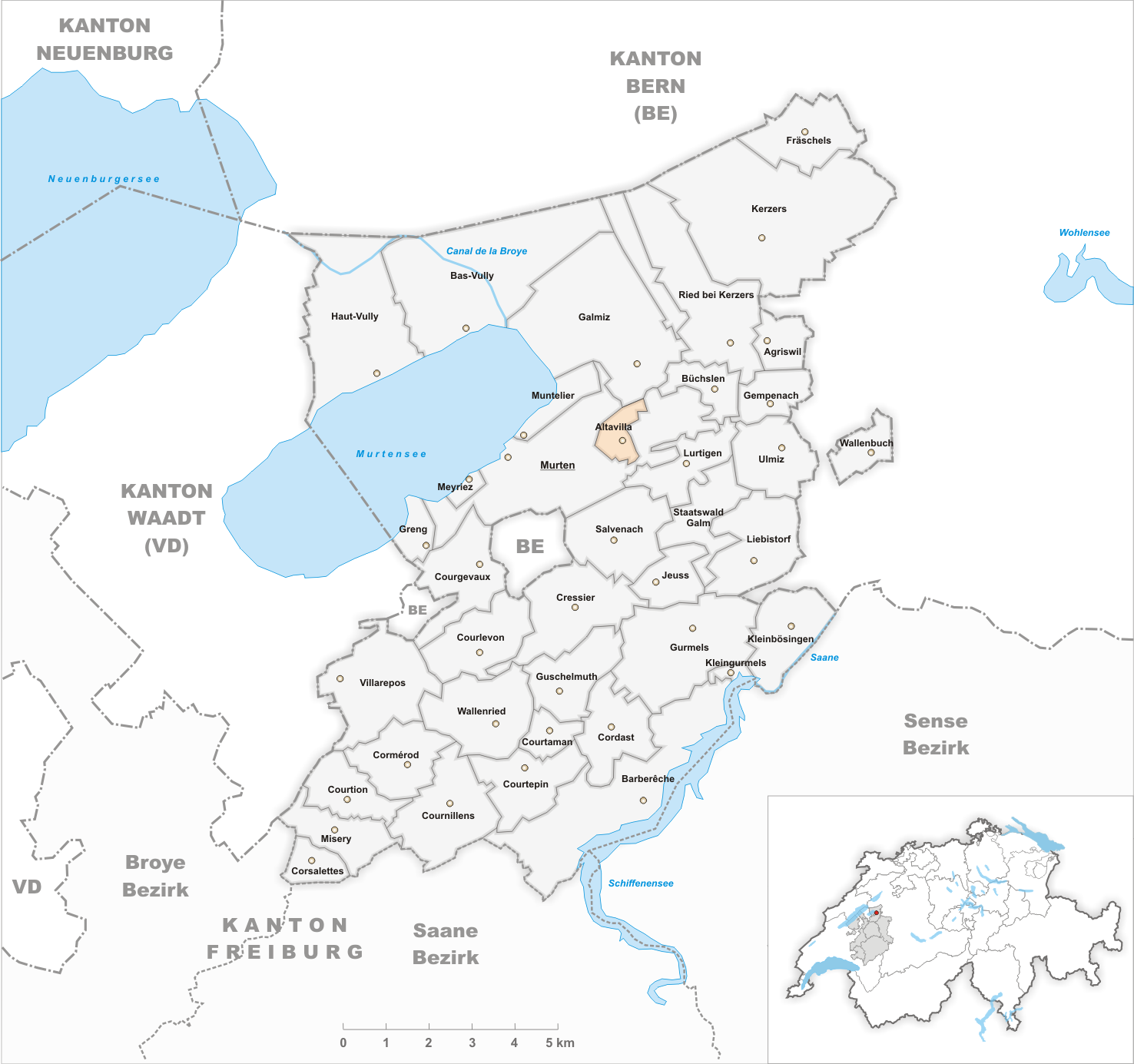 Municipality Altavilla Artist: Tschubby